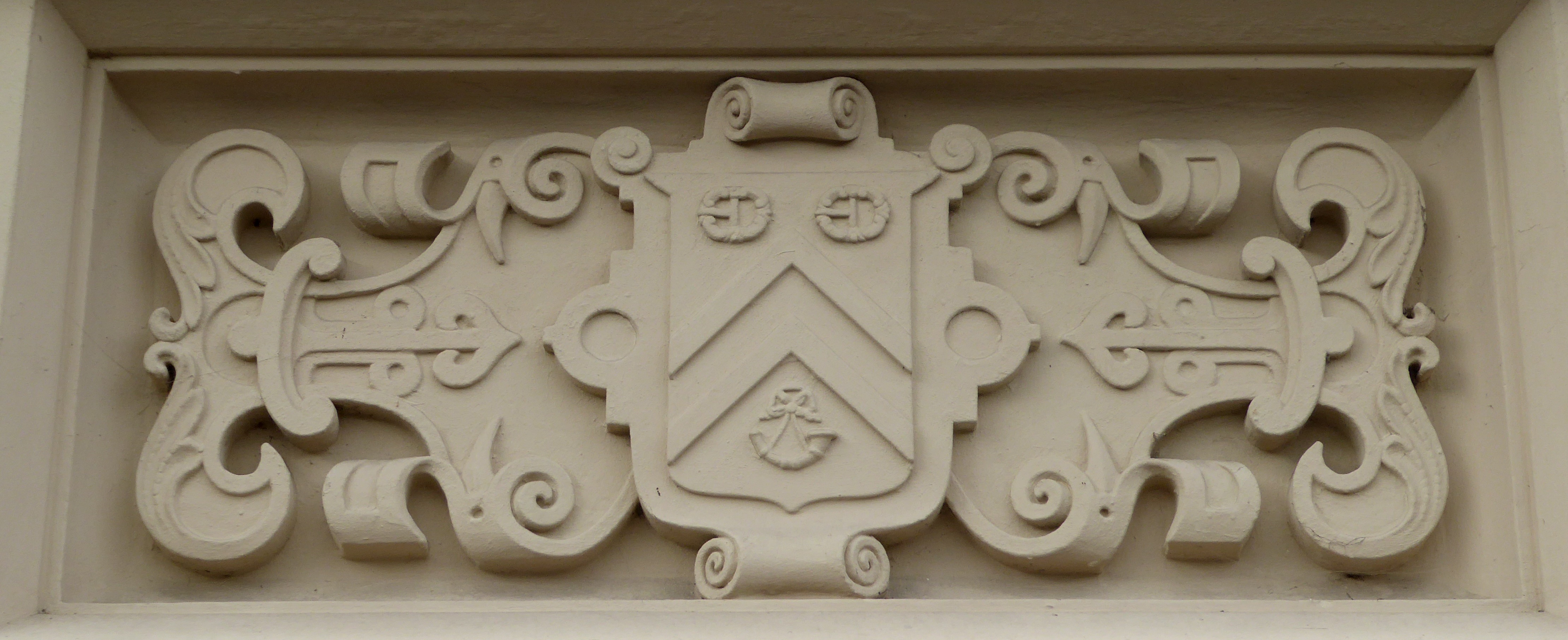 Detail on the front of Lamorbey House in southeast London.